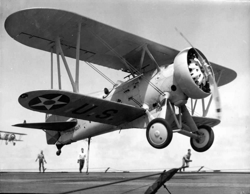 PictionID:38275126 - Catalog:AL-135B 177 - Filename:AL-135B 177.tif - This image is from a photo album donated to the Museum by JL Highfill which includes images taken in the Pacific during the Second World War-----------PLEASE TAG this image with any information you know about it, so that we can permanently store this data with the original image file in our Digital Asset Management System.-----------------SOURCE INSTITUTION: San Diego Air and Space Museum Archive